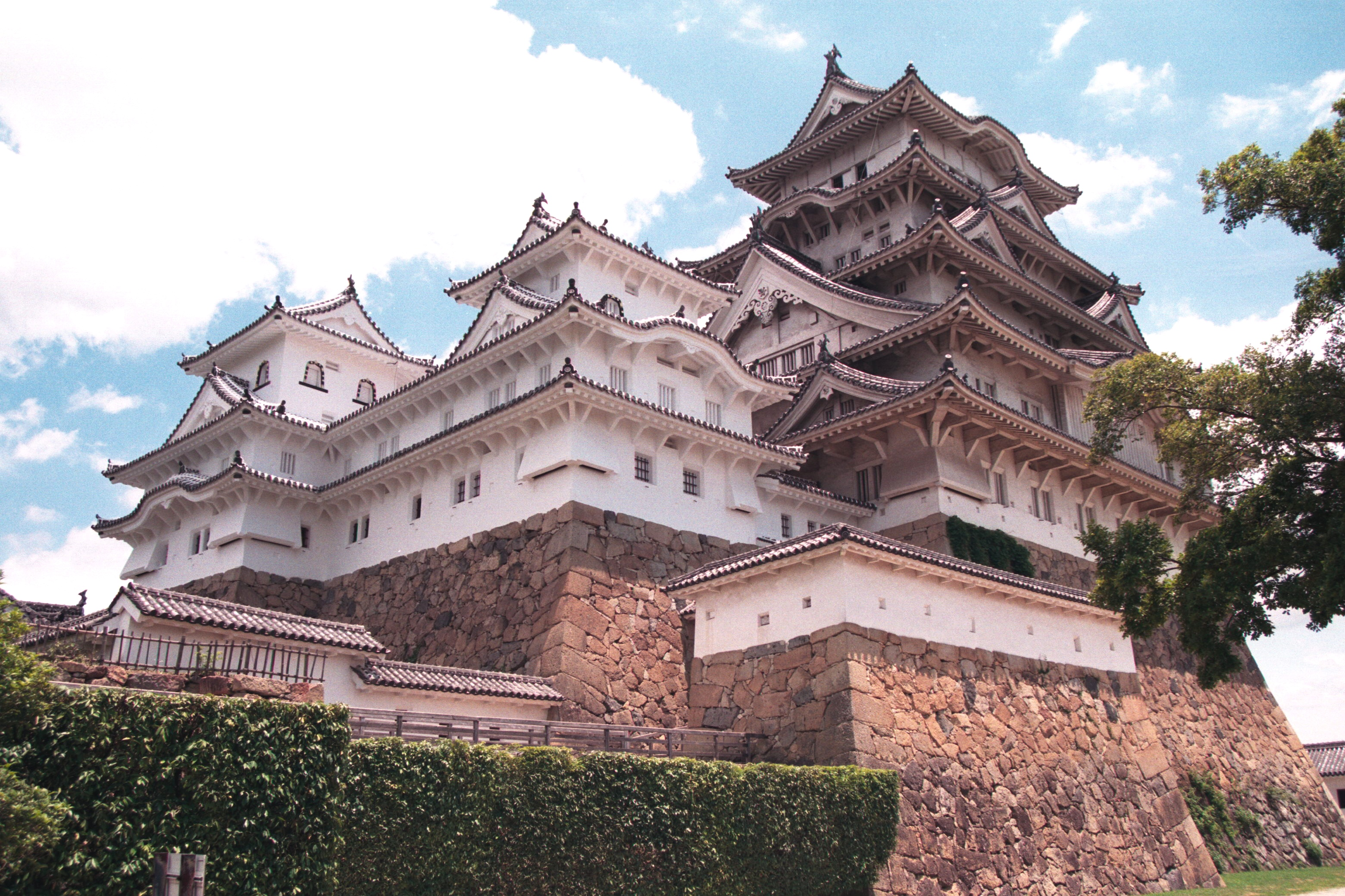 title=姫路城 This is a retouched picture, which means that it has been digitally altered from its original version. Modifications: Color adjustments. Modifications made by Jnn.